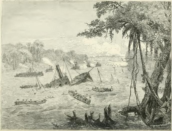 Naval Warfare in Paraguay. Destruction of a Brazilian Gunboat by a torpedo.